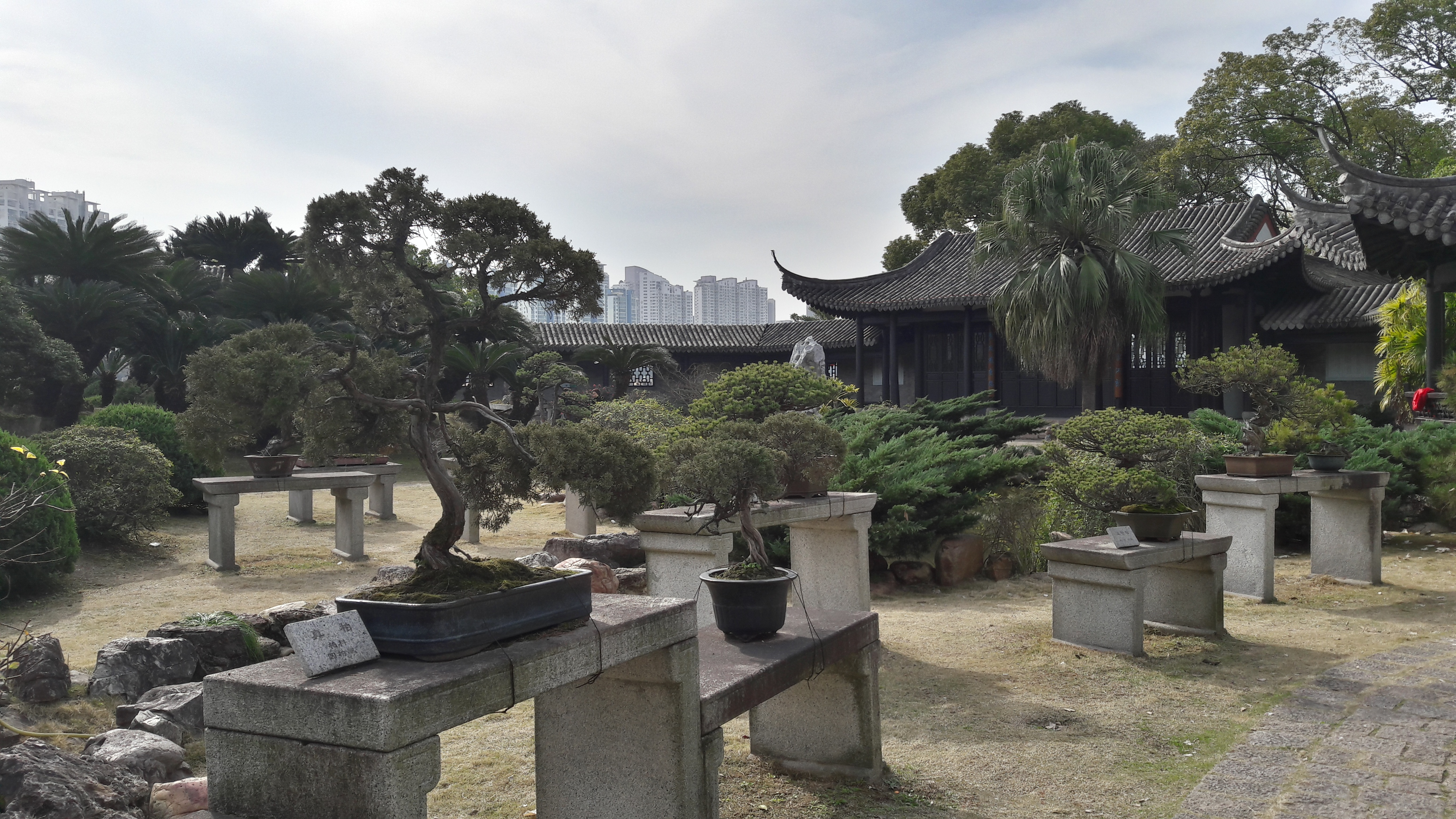 China, Wenzhou, Jiangxin Island, "Wenzhou penjing Garden".